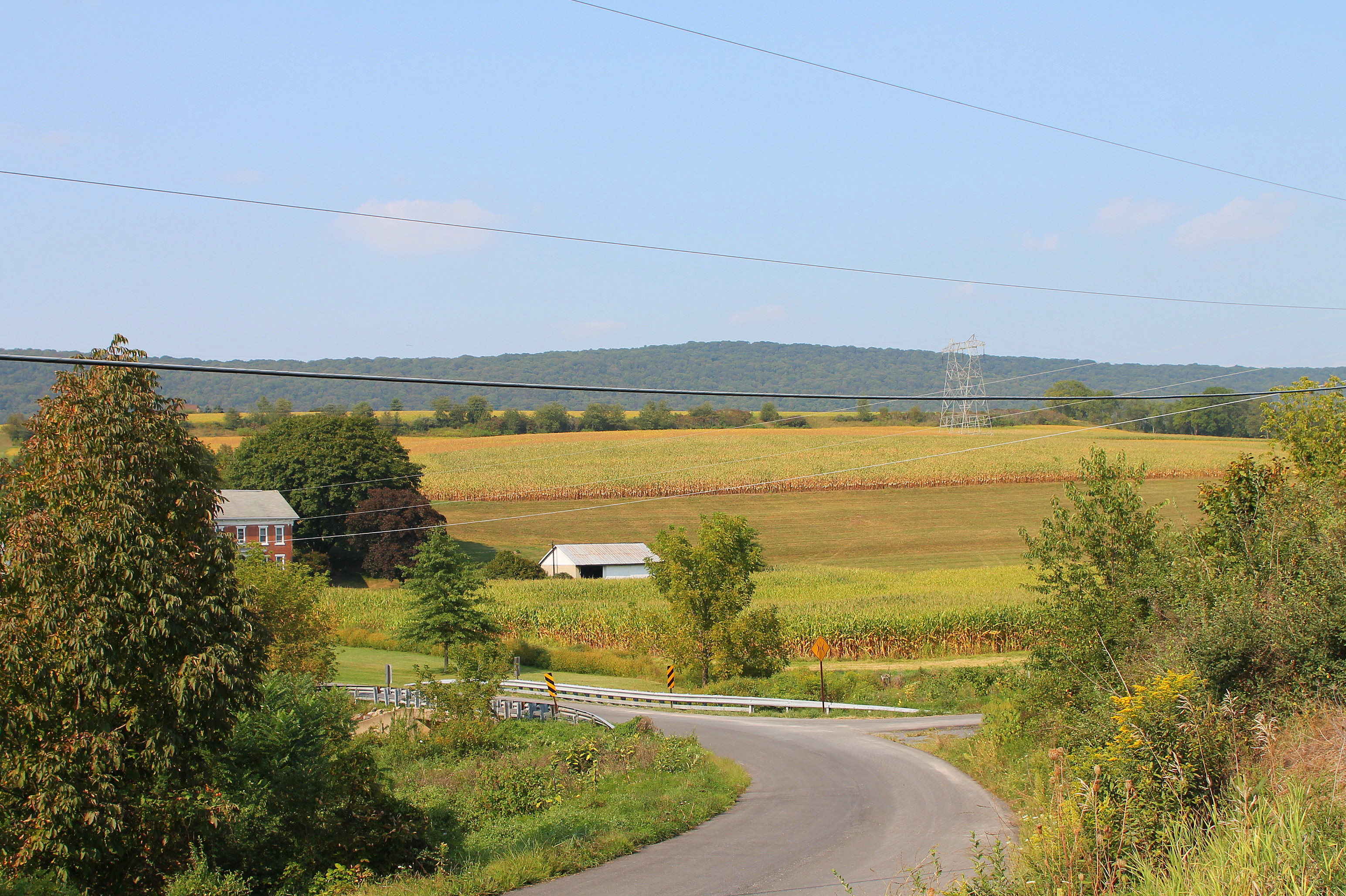 Scenery of Upper Mahanoy Township, Northumberland County, Pennsylvania